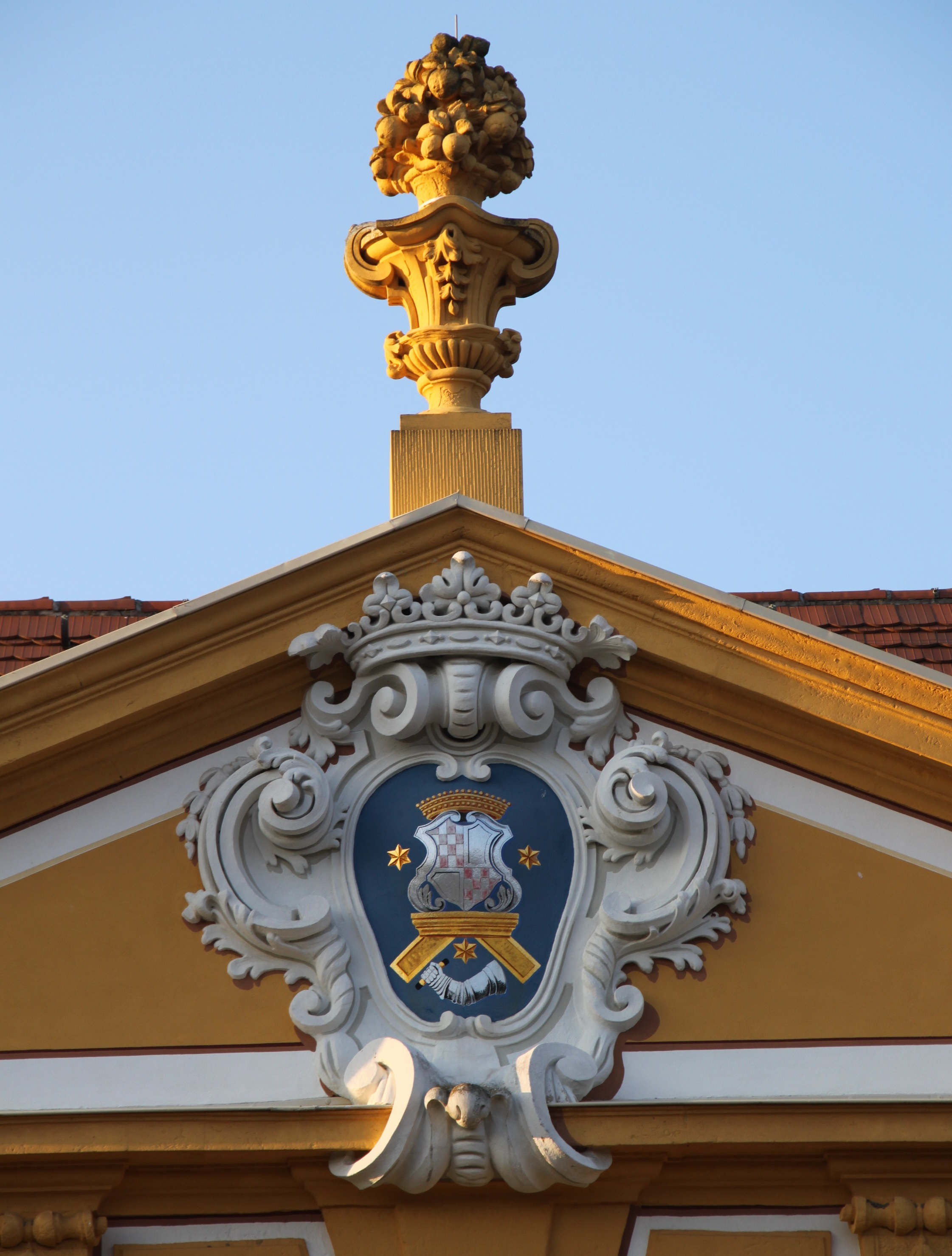 Coat of arms of the Wackerbarth dynasty, Großsedlitz near Dresden